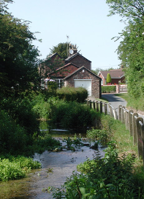 The Gypsey Race, Rudston, East Riding of Yorkshire, England.The Gypsey Race near the corner of Middle Street and Marton Lane, Rudston. This intermittent and irregular watercourse is believed to be affected by a siphoning action in underground reservoirs and can come into flood apparently regardless of recent rainfall in the local vicinity. This seemingly magical property is thought to be responsible for the number of significant neolithic sites along its course, including the Rudston monolith and the ancient burial mound of Duggleby Howe.